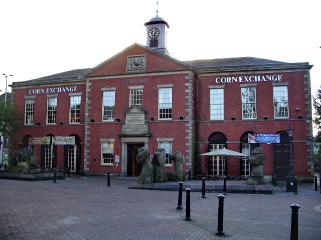 The Assembly, Lune Street